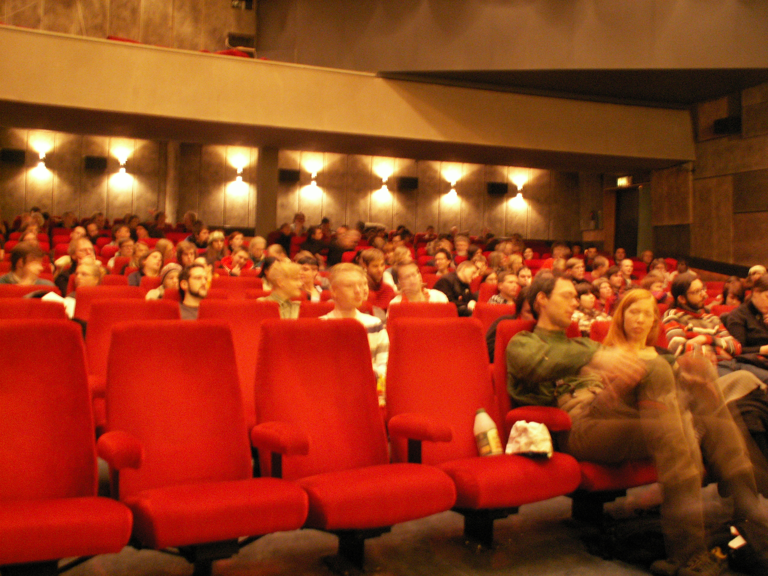 The movie theatre at Bio Capitol, at the Swedish premiere of Nausicaä från Vindarnas dal by Hayao Miyazaki, 17 February 2009.